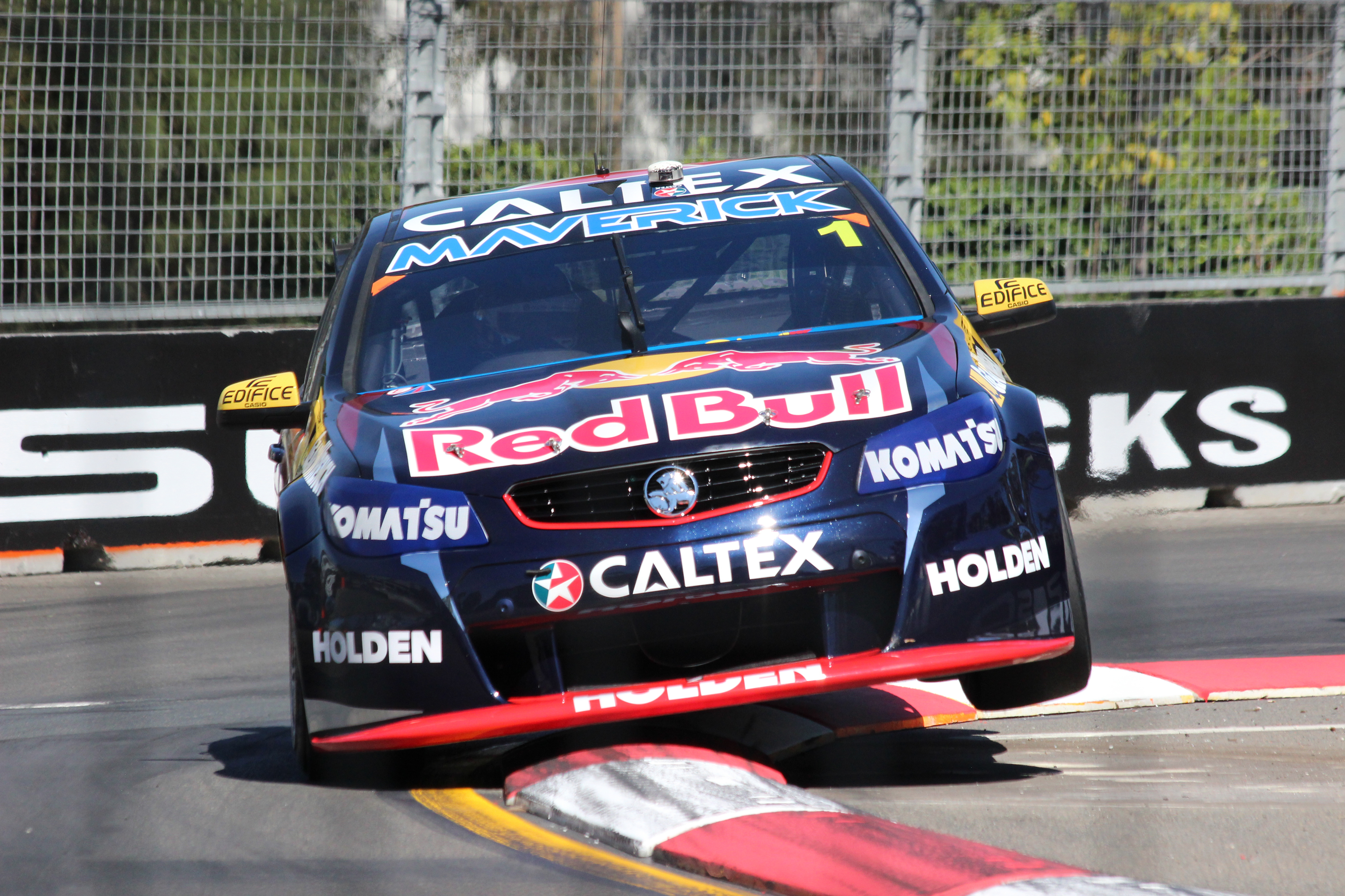 Jamie Whincup during a practice session at the 2015 Coates Hire Sydney 500.